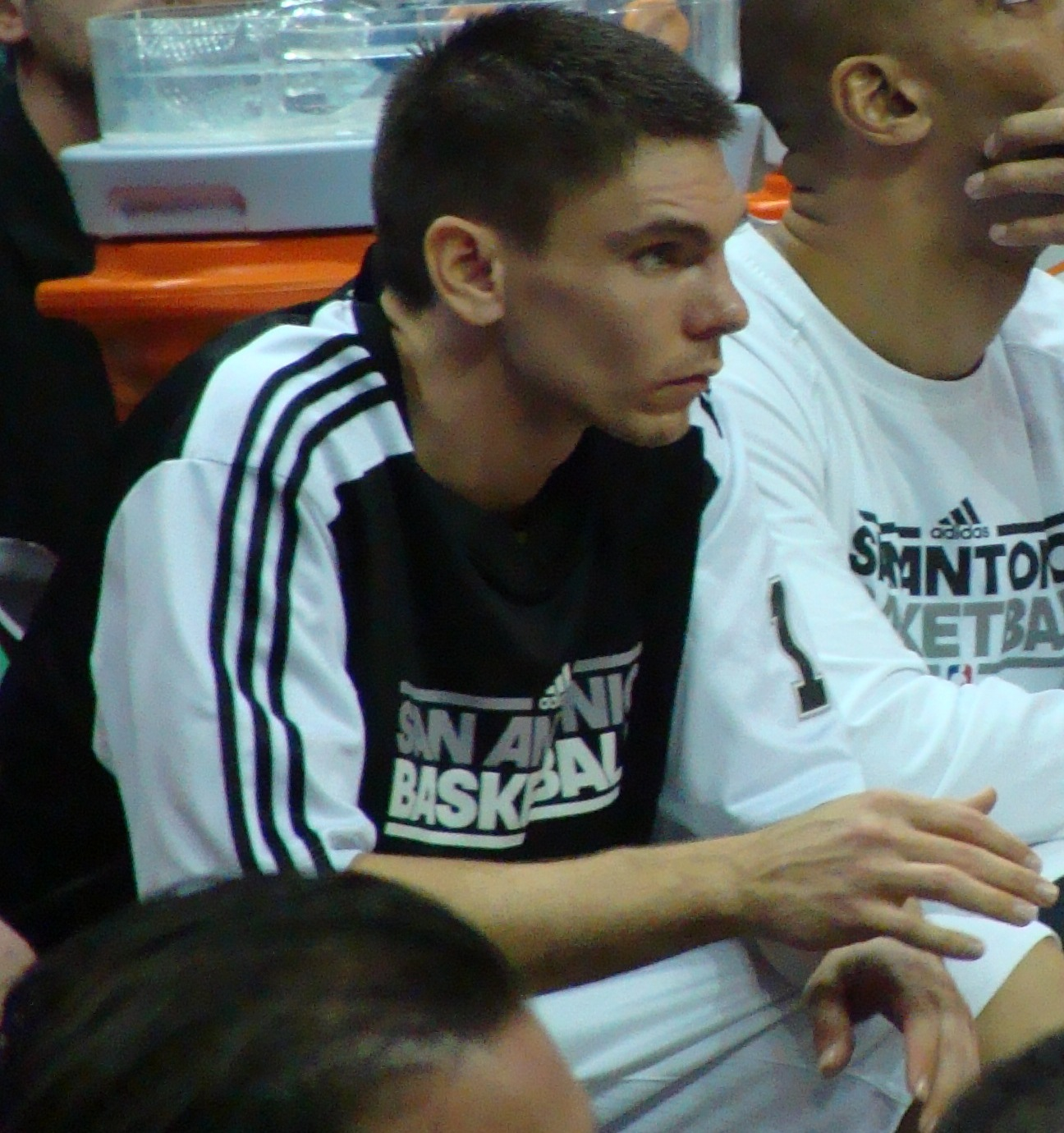 Chris Quinn of the San Antonio Spurs, during the Spurs-Nuggets match on 12-22-2010 in San Antonio, TX.